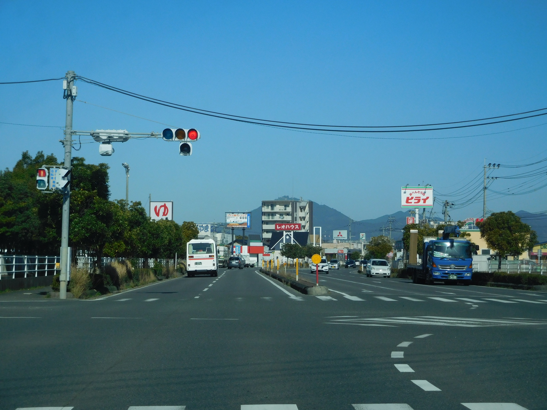 National Route 445 near "Aeon Mall Kumamoto" (also known as "Clair"), Kashima Town, Kumamoto Prefecture, Japan.